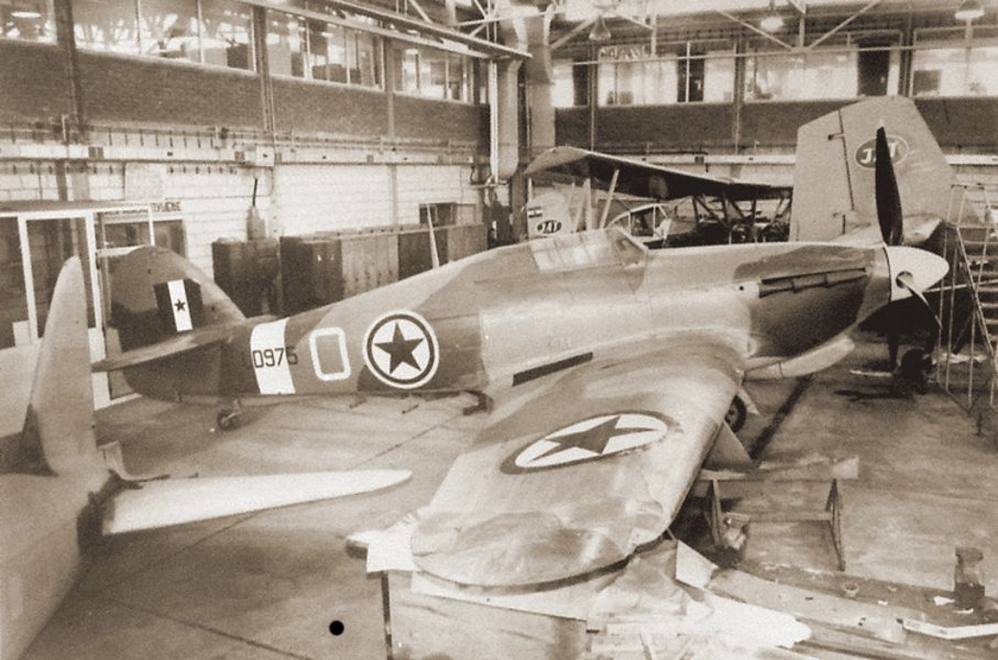 Hawker Hurricane Mk IV RP - prepared for presentation